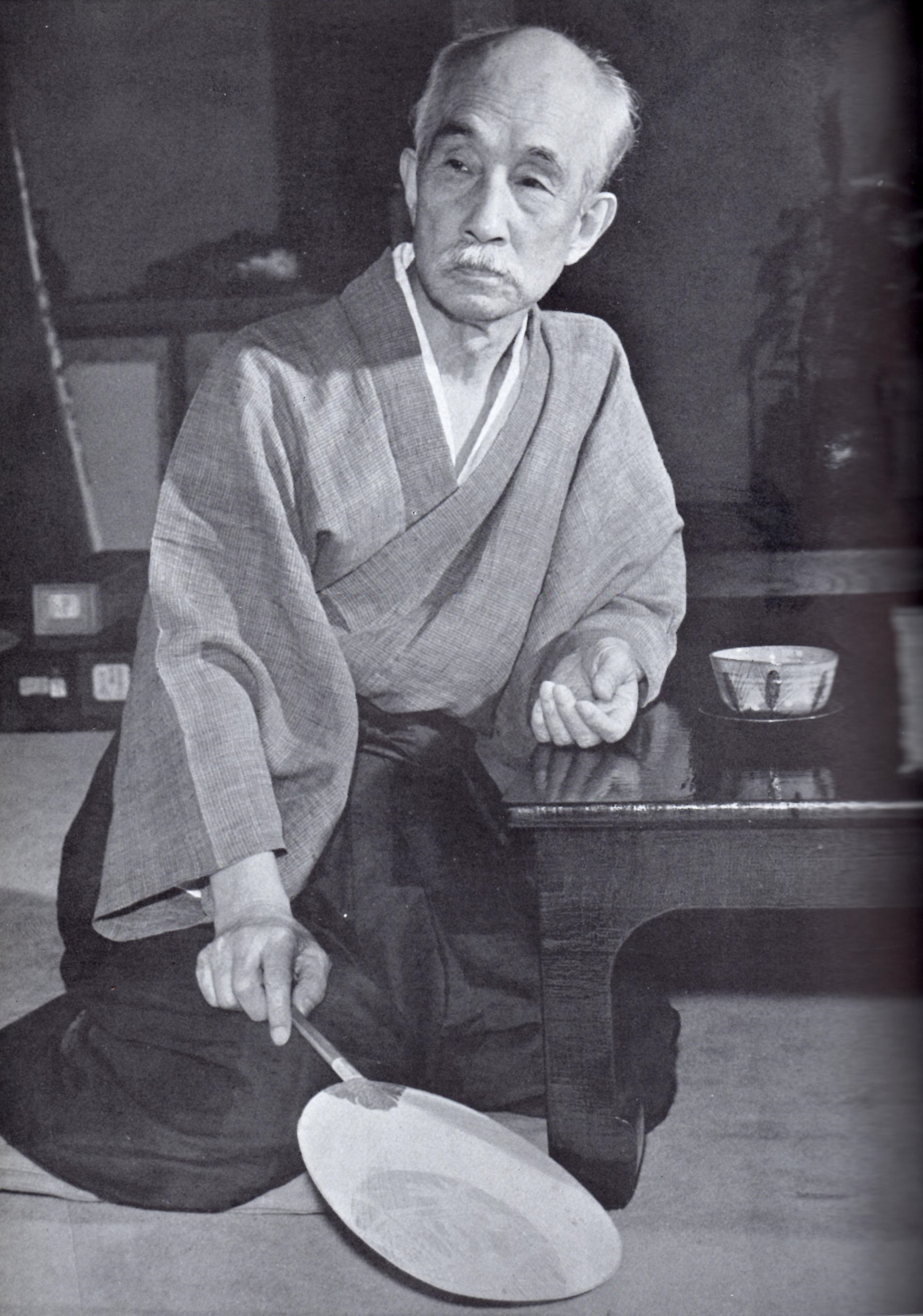 Japanese style painter, Kawai Gyokudō (1873-1957)